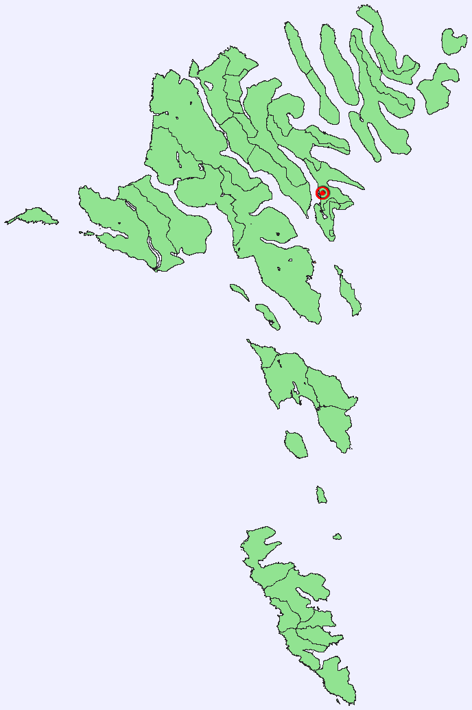 Position of Glyvrar in the Faroe Islands Graphics: Arne List